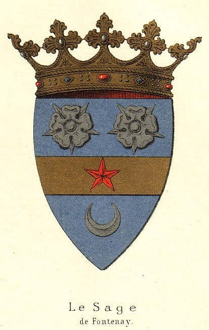 Coat of arms of the Le Sage de Fontenay family